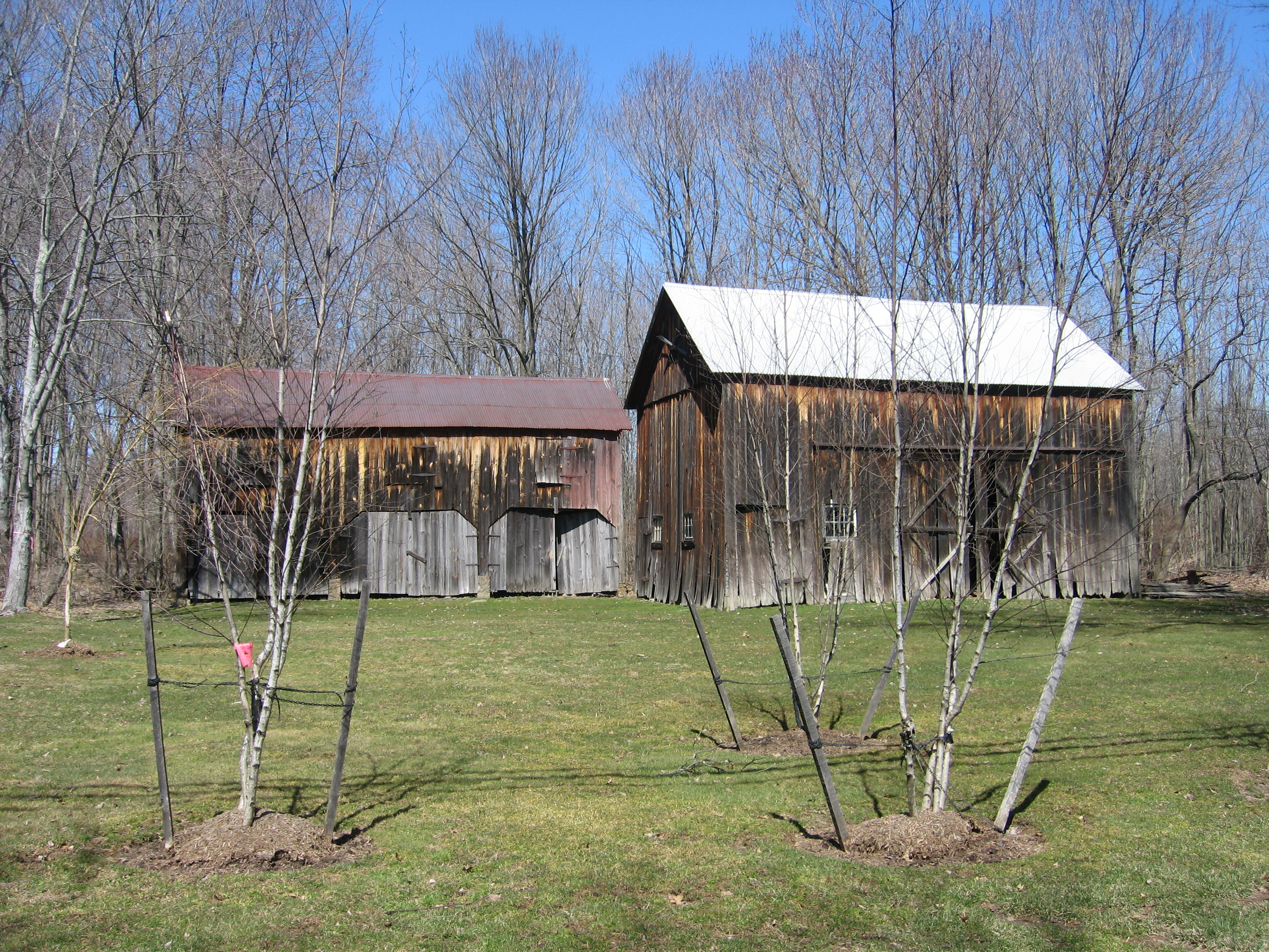 Barn located in the Great Swamp National Wildlife Refuge New Jersey